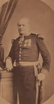 Jean Marie Saisset (1810-1879), French Admiral